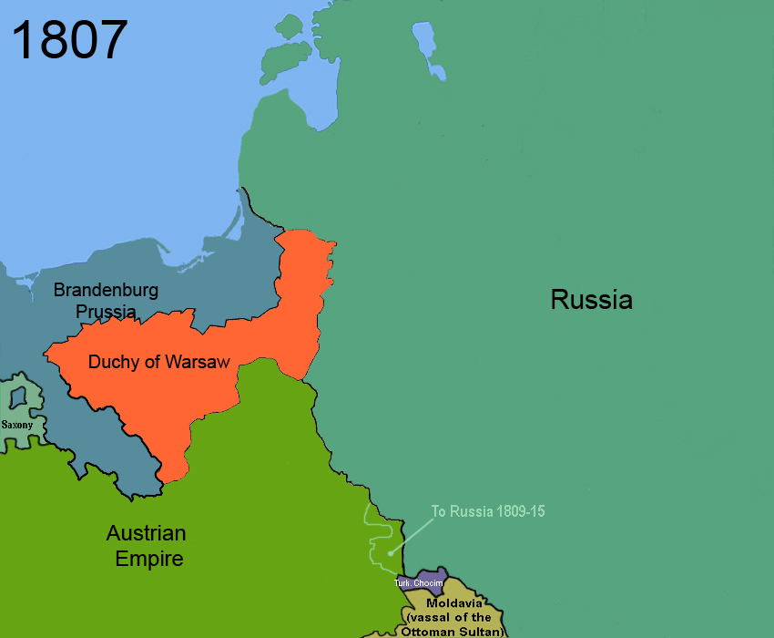 Poland 1807